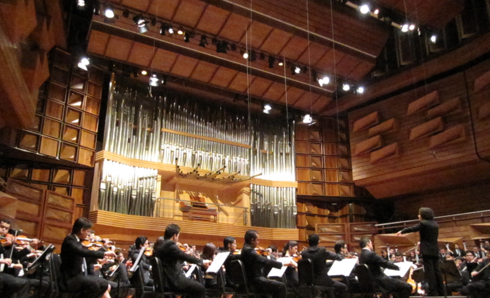 Gustavo Dudamel in concert in Center for Social Action Through Music, Caracas, Venezuela. Gustavo Dudamel en concierto en el Centro de Acción Social para la Música, Caracas, Venezuela.